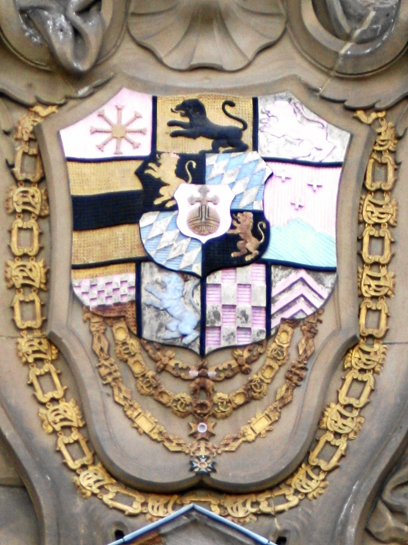 Mannheim, Germany, former armory. Coat of arms of the builder-owner Charles Theodore, prince-elector of Palatinate and Bavaria. It shows his possessions: on the main shield Cleves, Jülich, Berg, Moers, Bergen op Zoom, Mark, Veldenz, Sponheim, and Ravensberg, on the centre shield Palatinate and Bavaria.